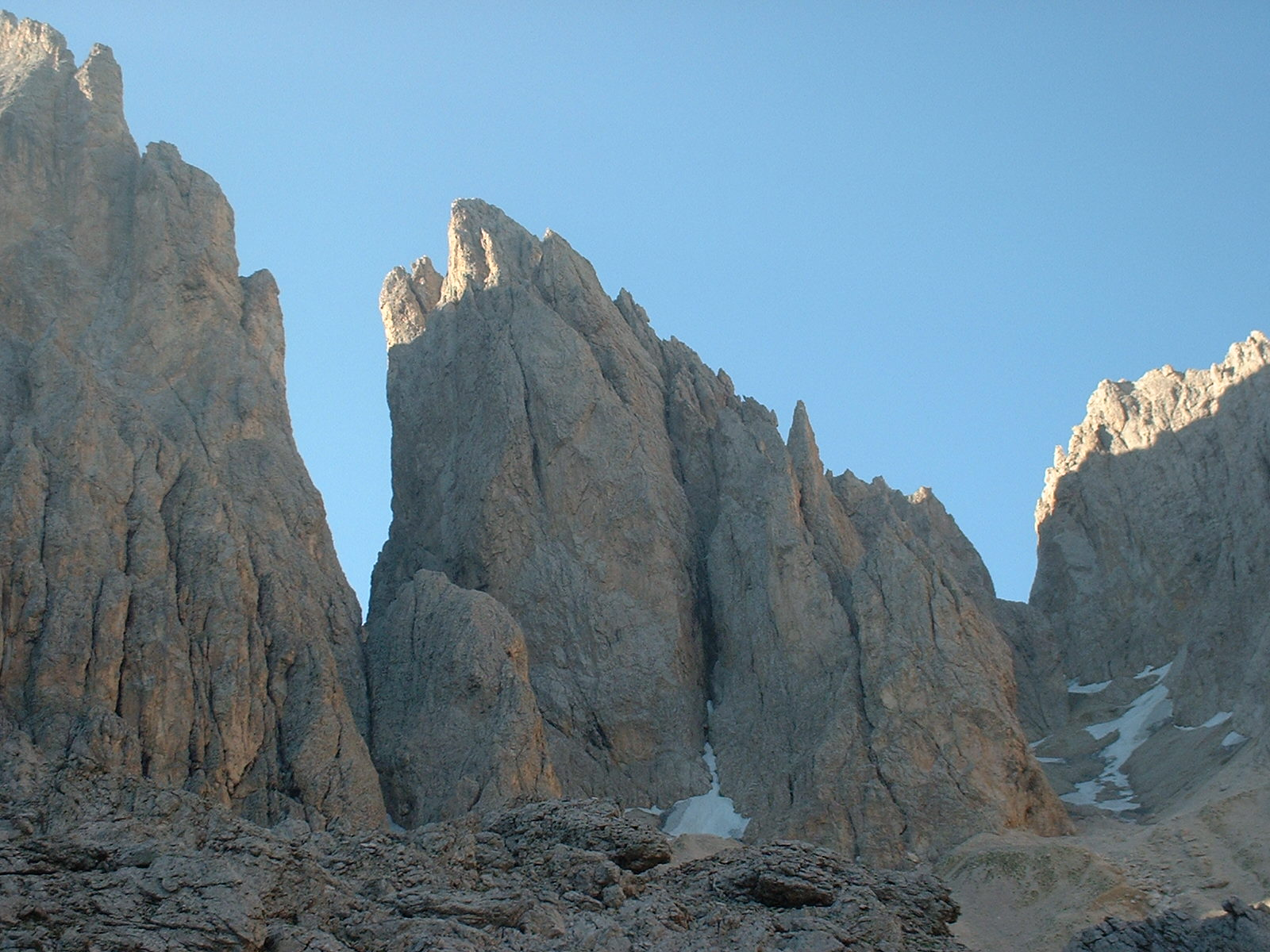 Zahnkofel